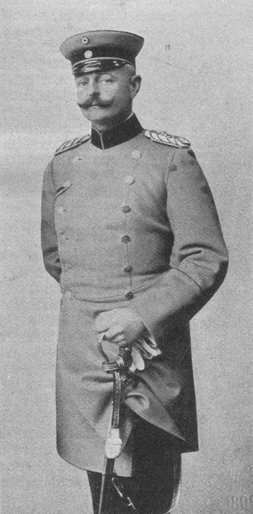 Frederick Augustus II, Grand Duke of Oldenburg (1851-1932).